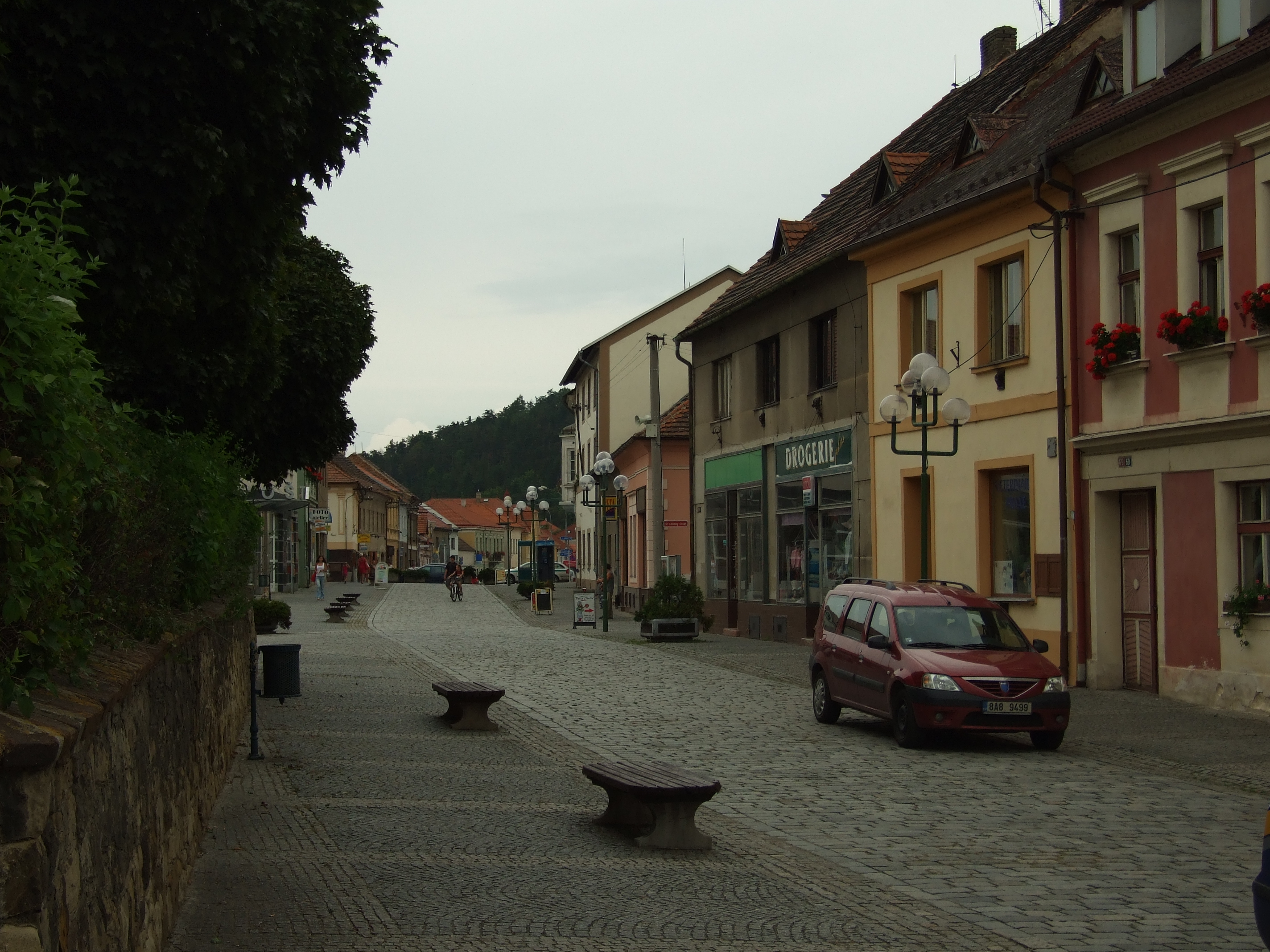 Central part of the town of Zdice in Central Bohemian Region, CZhelp This photograph was taken within the scope of the 'Czech Municipalities Photographs' grant.